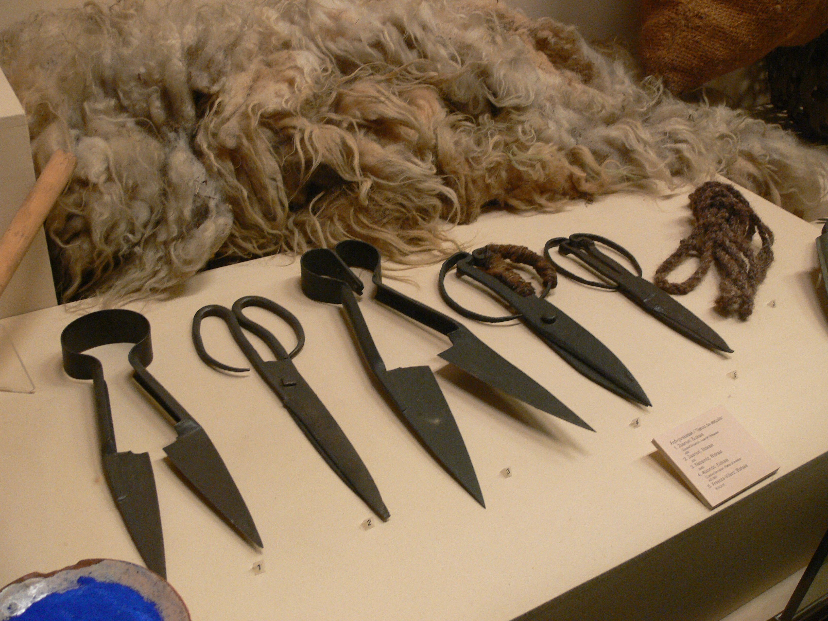 Scissors for shearing sheep.